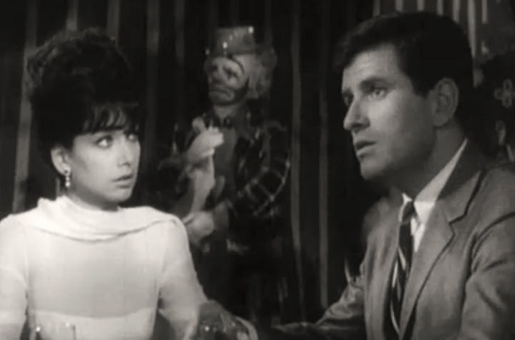 Suzanne Pleshette & Linden Chiles in A Rage to Live - trailer (cropped screenshot)